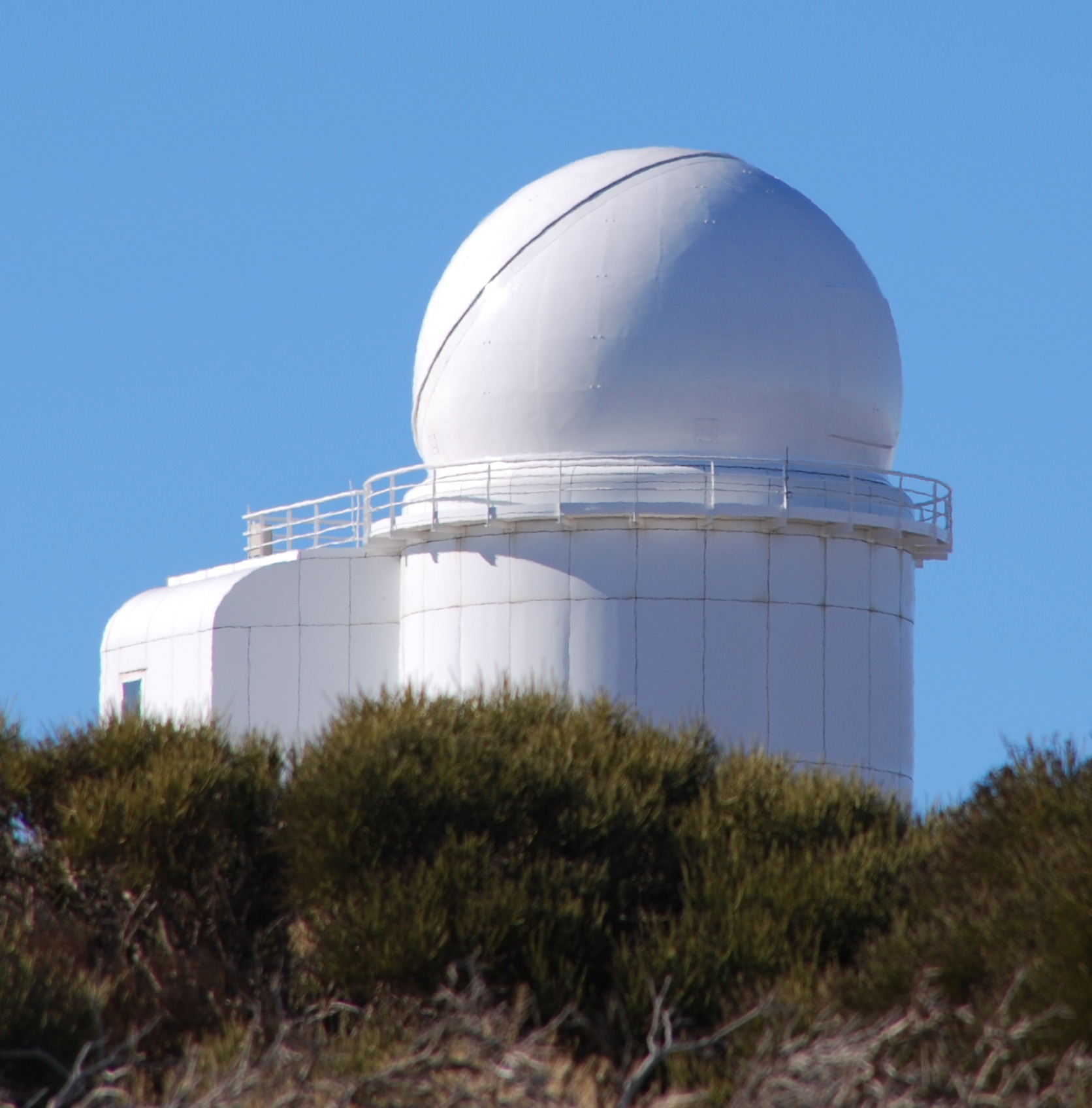 French-Italian Solar Telescope THEMIS at the Teide Observatory, Tenerife